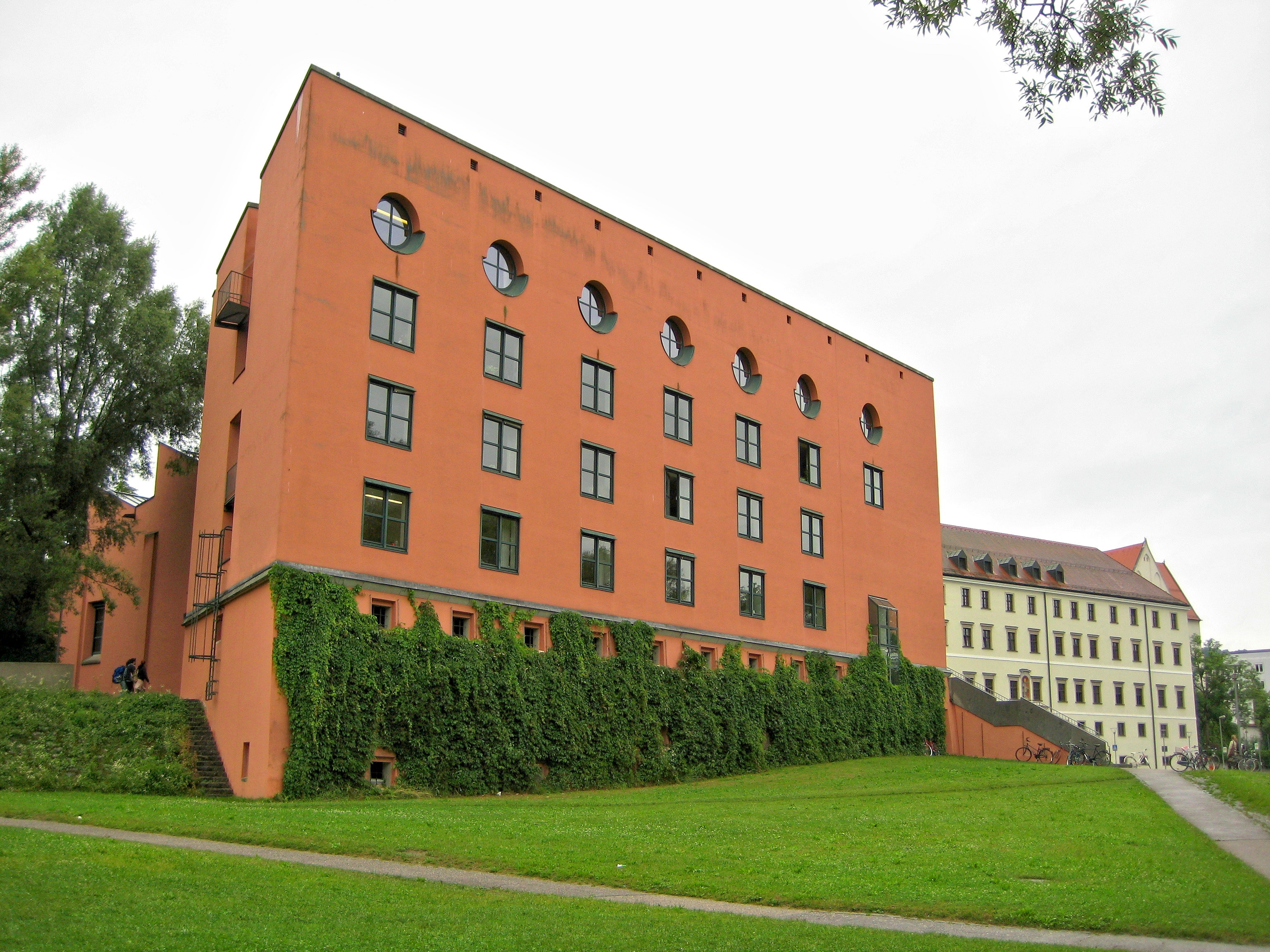 University of Passau